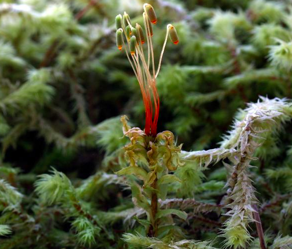 Acrocarpous growth and nodding sporangia